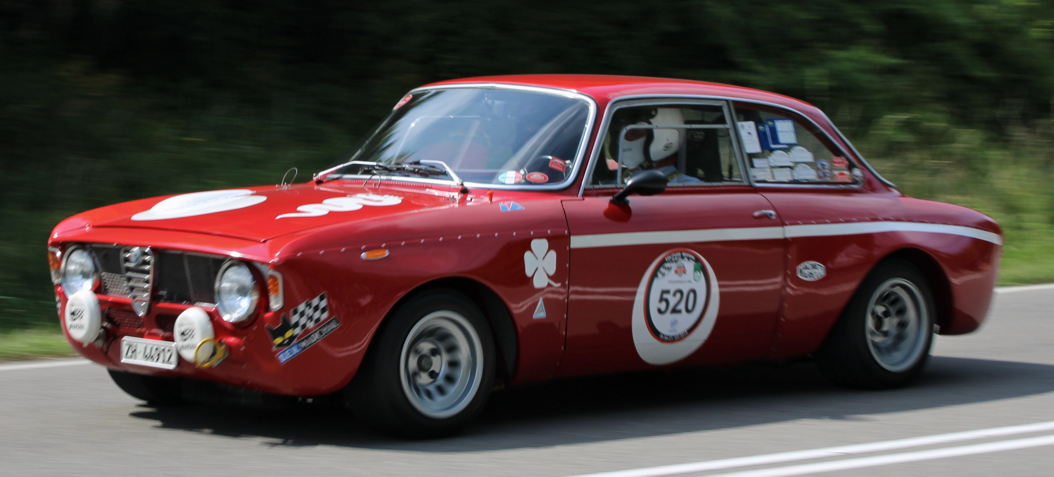 Alfa Romeo GTA Junior Autodelta Corsa (1968) at Solitude Revival 2019